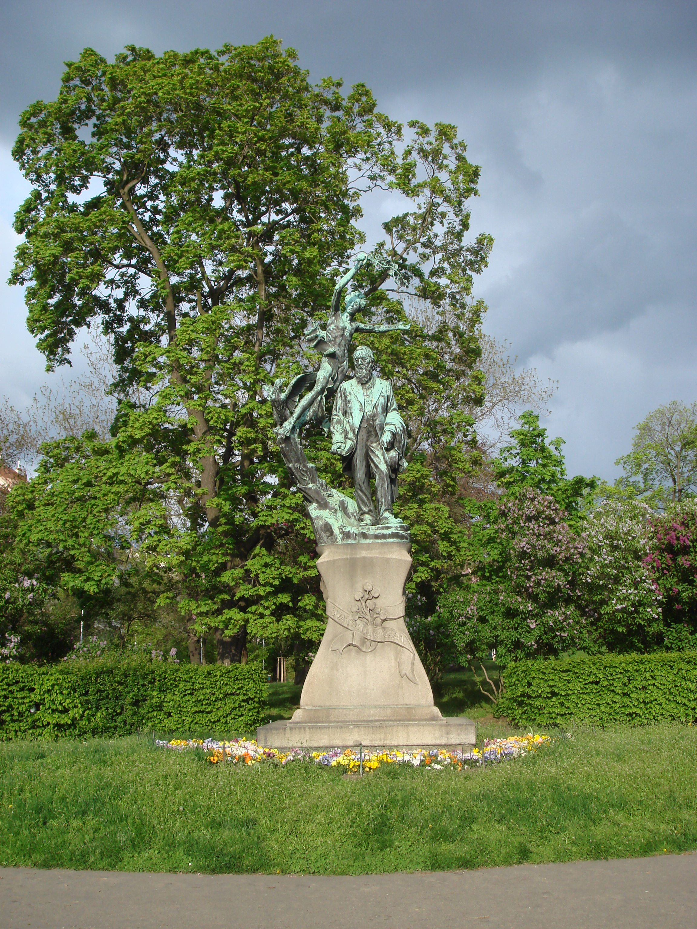 Statue of Svatopluk Čech in Čechovy sady (Prague, Czech Republic).